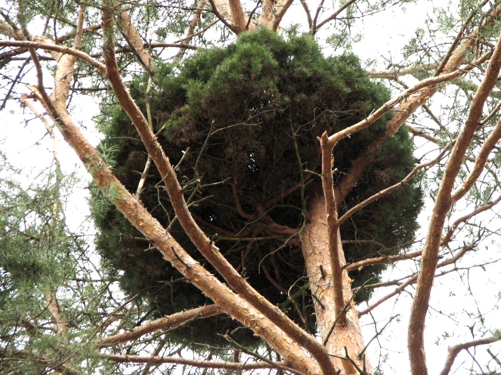 Scots Pine with witch's broom, 04.2006 Brok, Poland